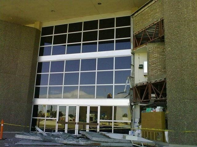 Damage to the Vicerrectory Building at UABC Mexicali after the 2010 Baja Quake.